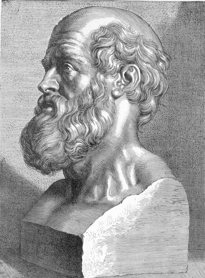 Hippocrates (460-370 BC)